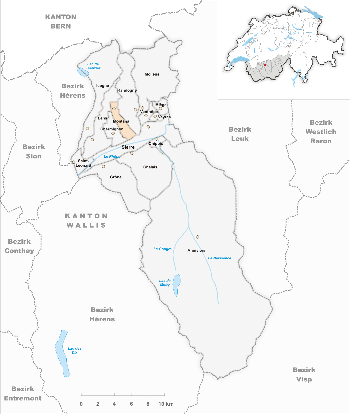 Municipality Montana